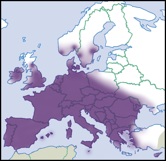 Physa acuta Draparnaud, 1805. Distribution in Europe, scientific state of knowledge of 2012. Source description in English. Light colour indicated rare occurrences or regions where the species could eventually be expected to occur. Dark colour indicated relatively reliable occurrences, as well as regions where the species was expected to occur, and where the species was not known to be extremely rare. Dark colour indications were not necessarily based on published records. Species summary in AnimalBase